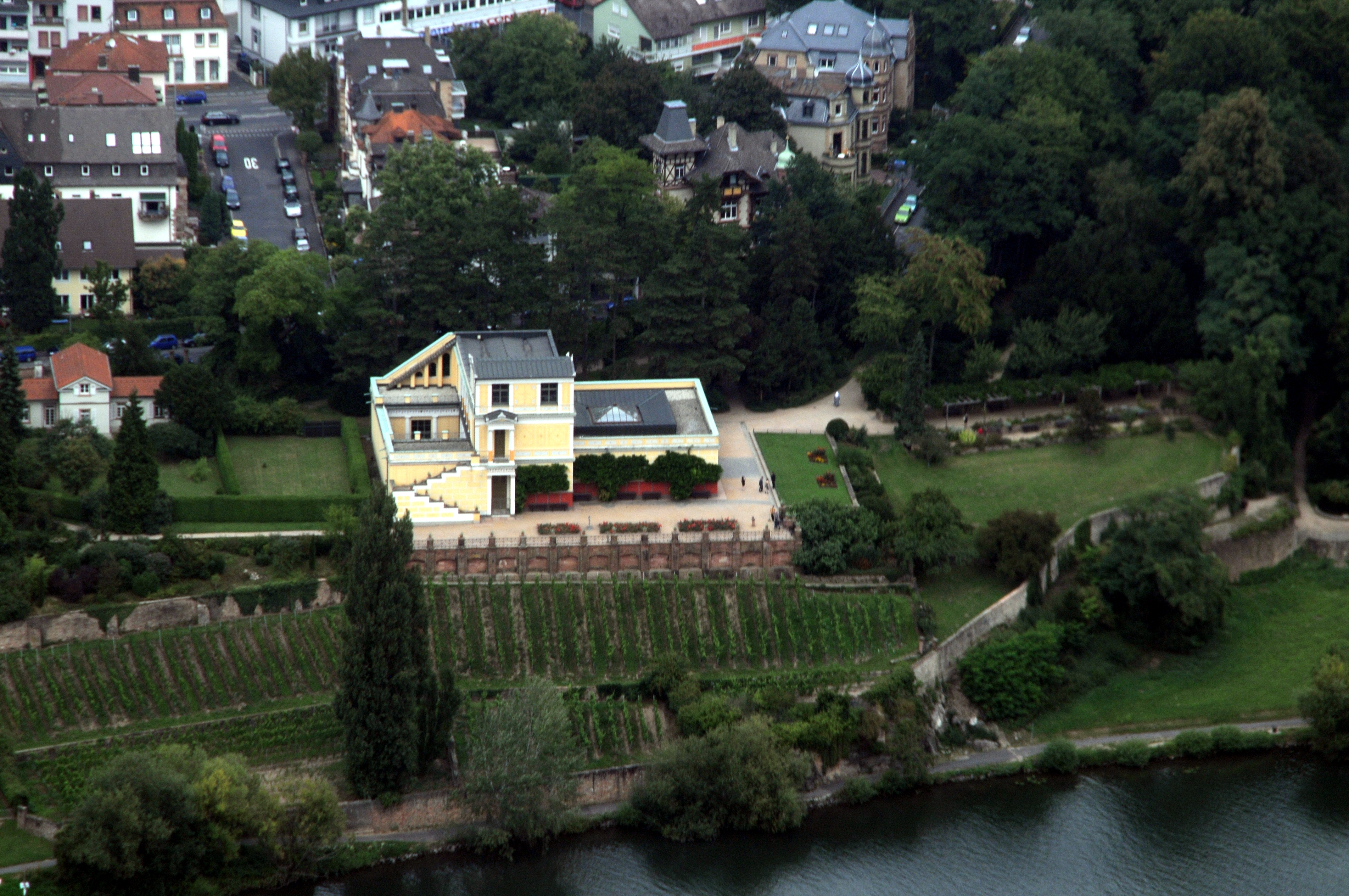 Pompejanum, Aschaffenburg, Bavaria, Germany, aerial photograph